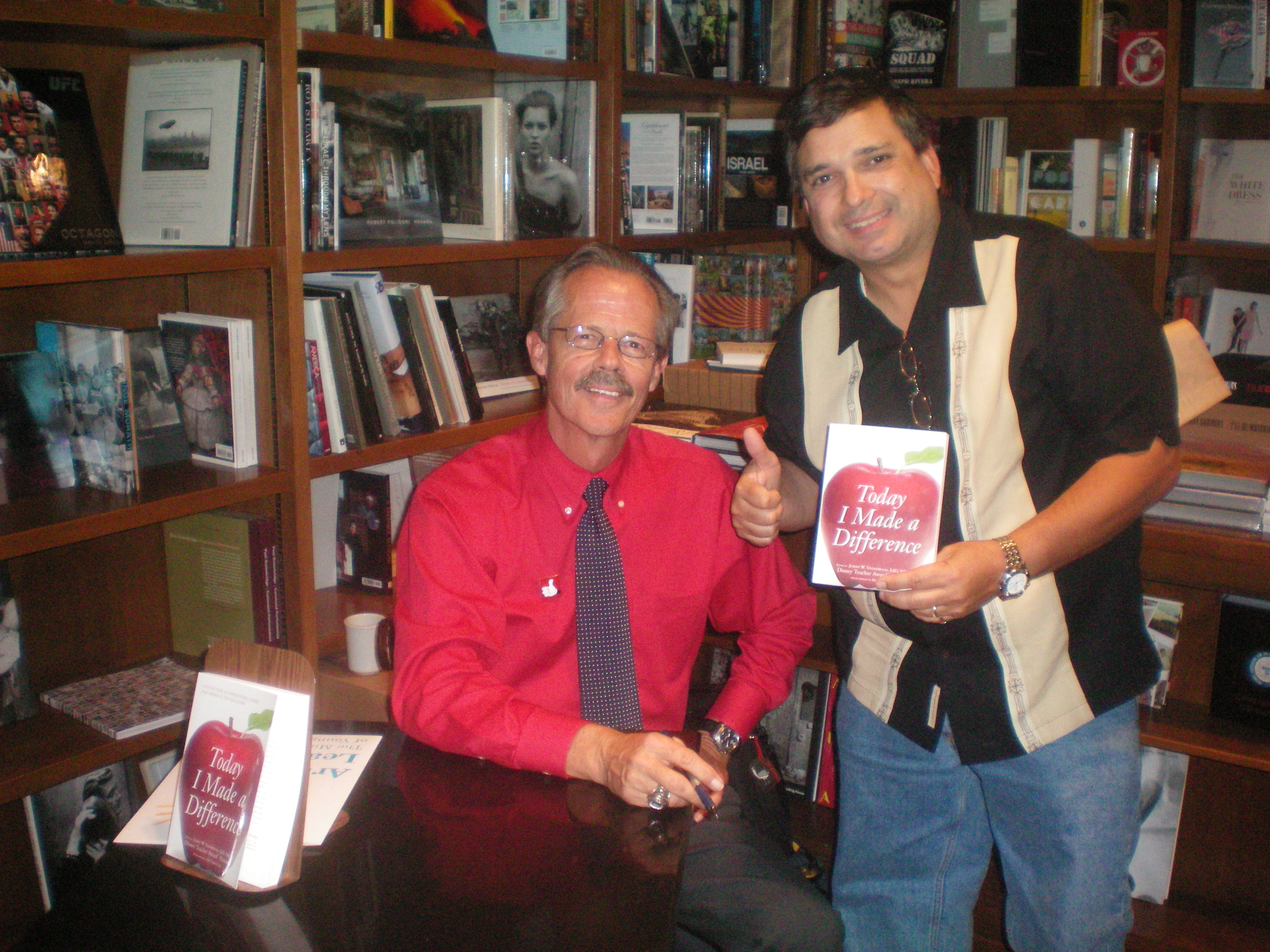 Author Joseph W. Underwood signs an autograph at a book signing.